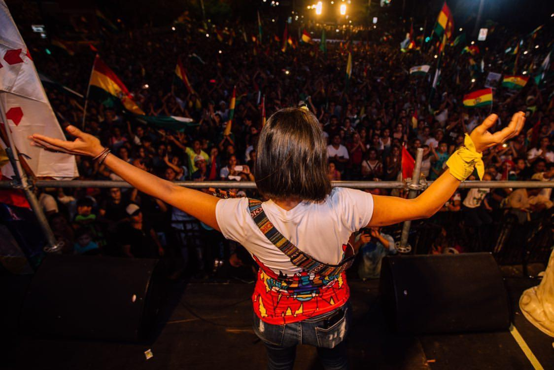 Carolina Bessolo in front of thousands in Santa Cruz de la Sierra